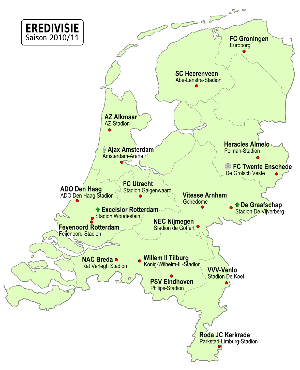 Teams of the dutch football Eredivisie 2010–11. Thematic map.